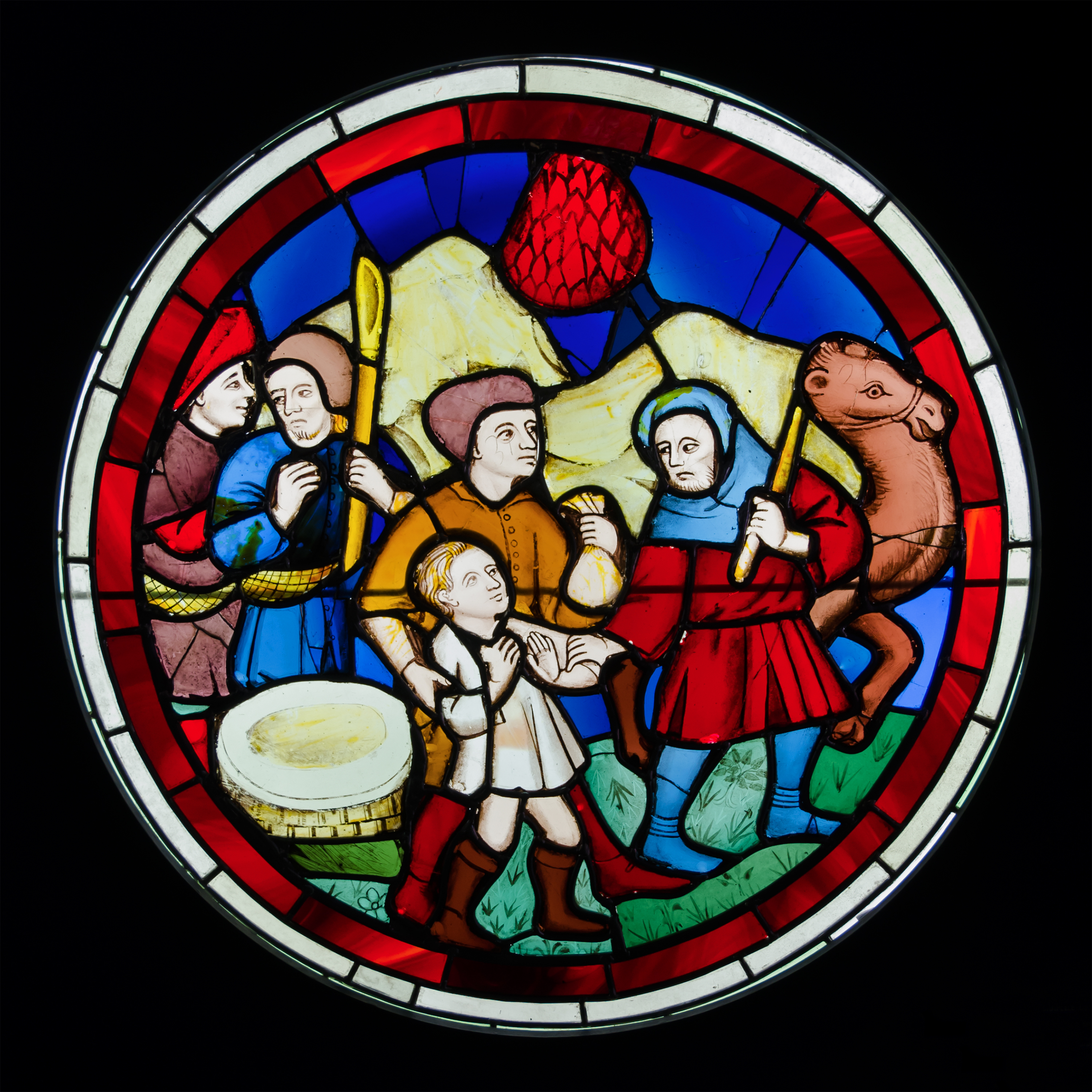 Joseph sold by his brothers, stained glass from Sainte-Chapelle, 15th century - Musée national du Moyen Âge, Paris.